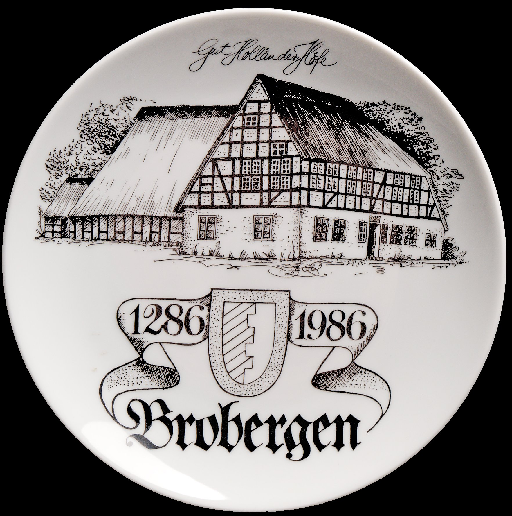 Memorial plate to mark the 700th jubilee of the first mentioning of Brobergen.